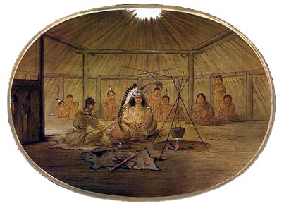 Painting of a Mandan feast by George Catlin. Circa en:1835. Image from Commons:Category:Mandan Commons:Category:Paintings Commons:Category:1835